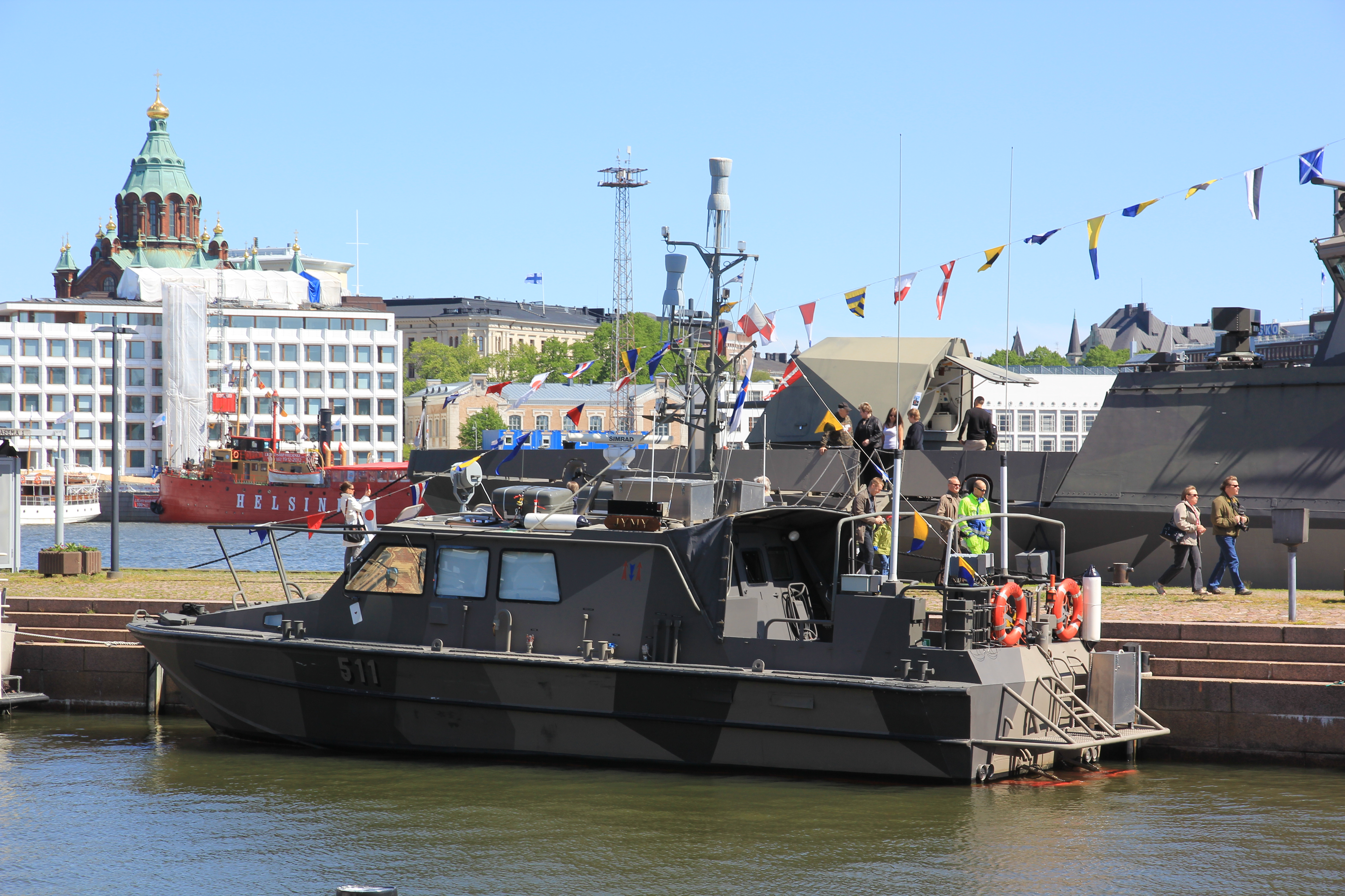 Finnish navy command launch Jymy (511) and missile boat Tornio (81) in Helsinki South harbour as part of the Finnish Defence Force Flag day celebrations.